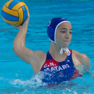 Roser Tarragó is a spanish female water polo player